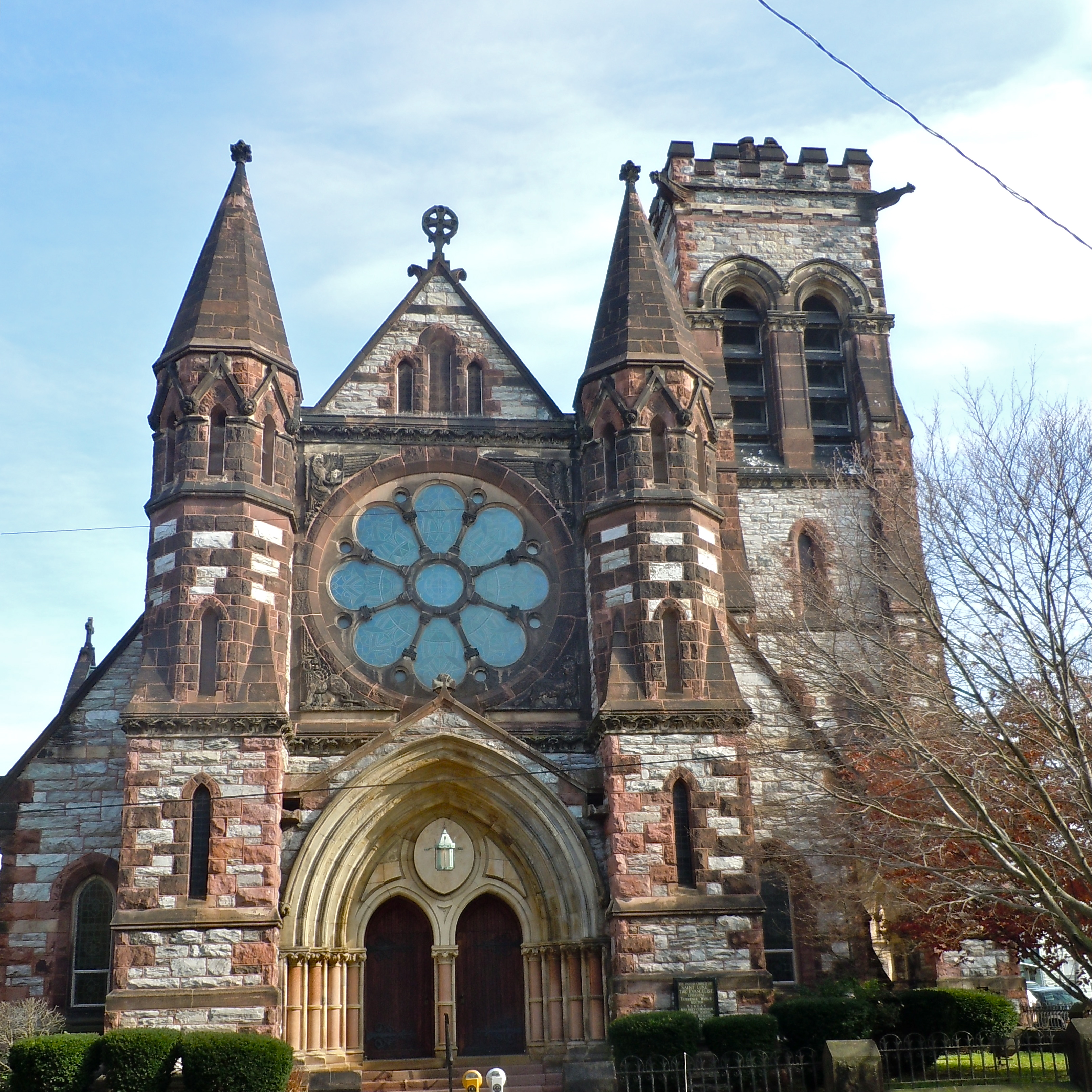 St. Lukes Episcopal Church on the NRHP since September 4, 1974. At 6th and Chestnut Streets, Lebanon, Lebanon County, Pennsylvania